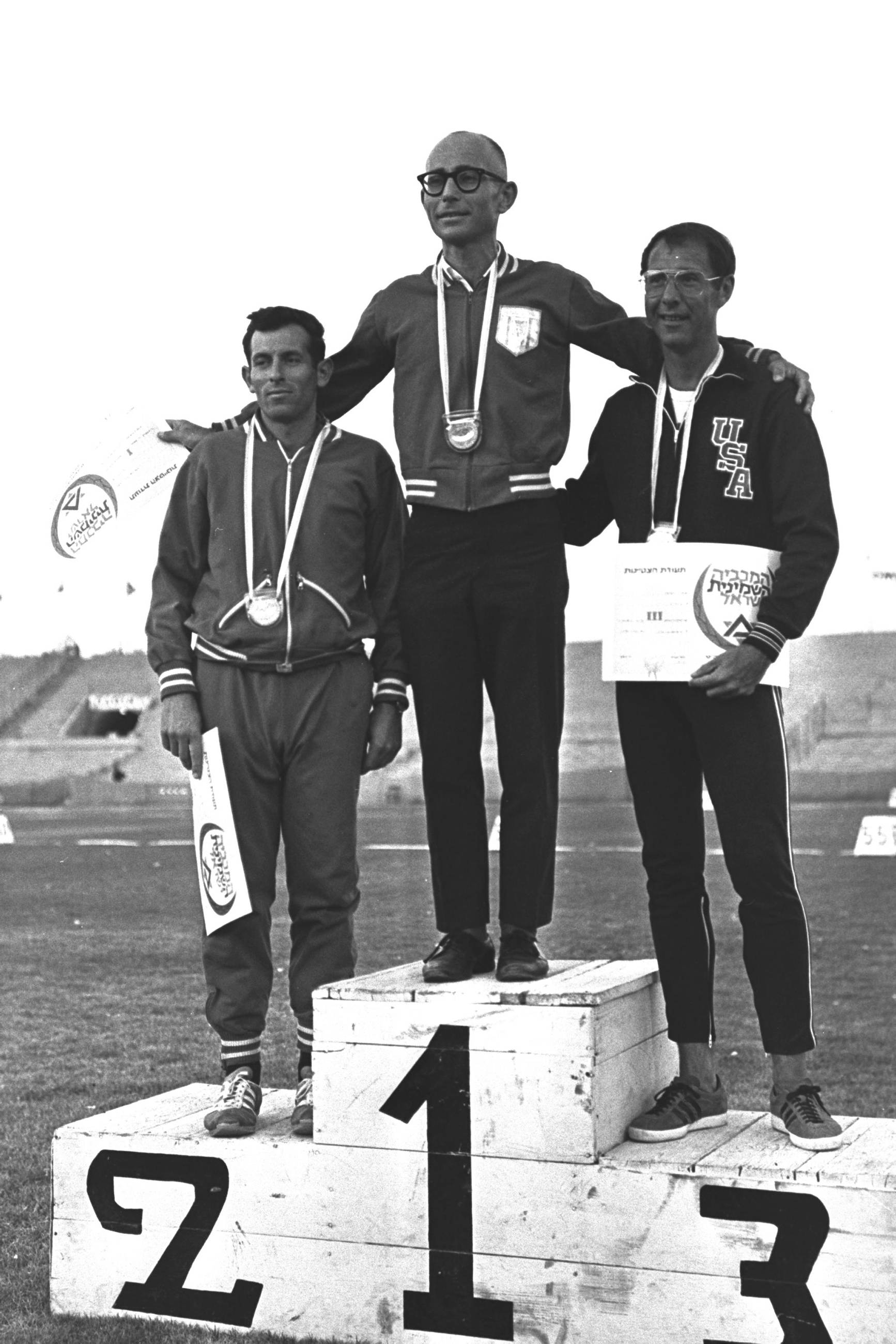 The winners of the 10,000 m walk on the podium, during the 8th Maccabia Games held at the Ramat Gan Stadium.